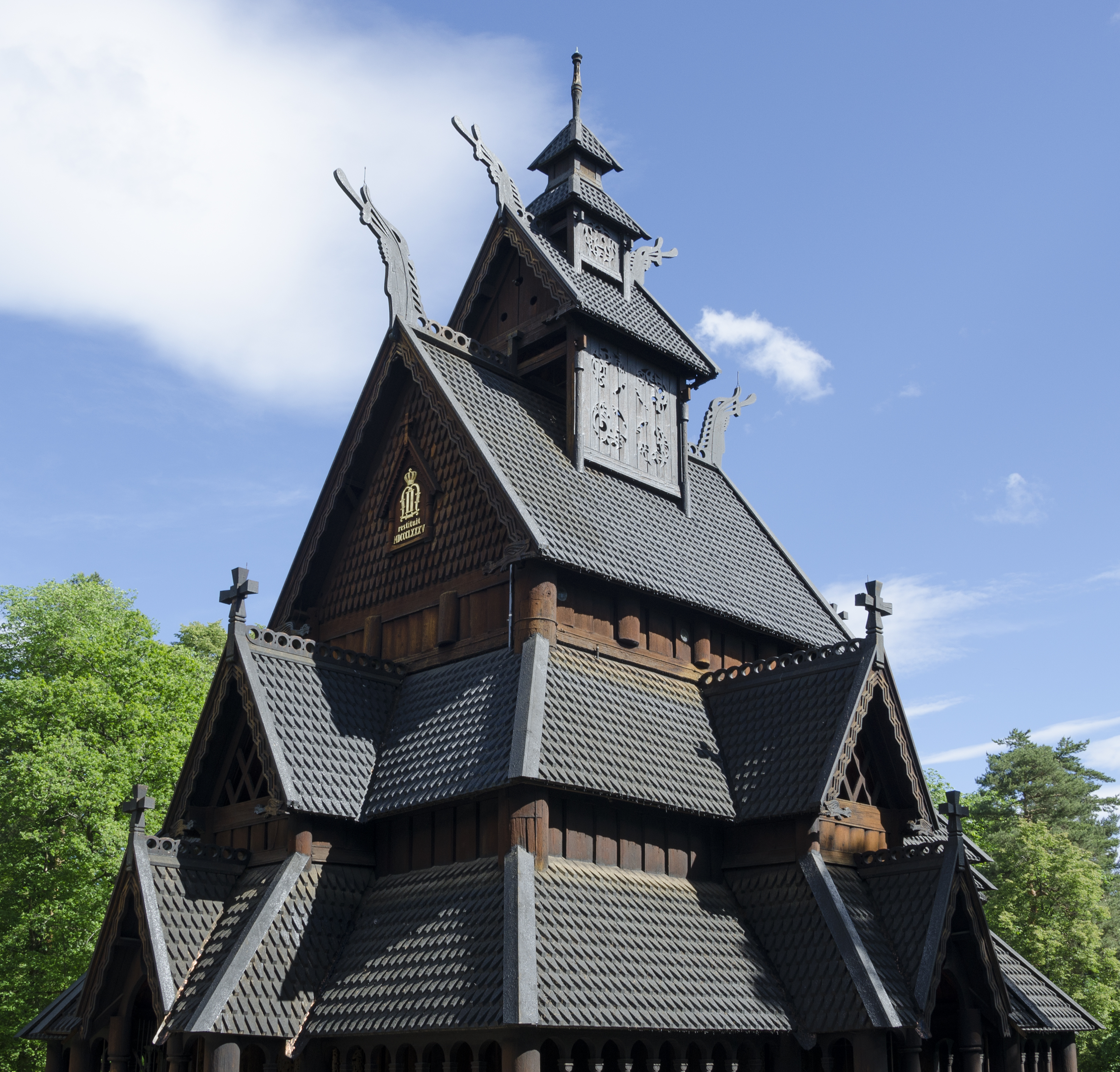 Roof section of the stave church from Gol in Halling valley, ca. 1200. Moved to the Norwegian Museum of Cultural History 1884. Around 1/3 of the materials were thought to be mediaeval - the rest of the church was reconstructed, modelled after Borgund stave church in Sogn.